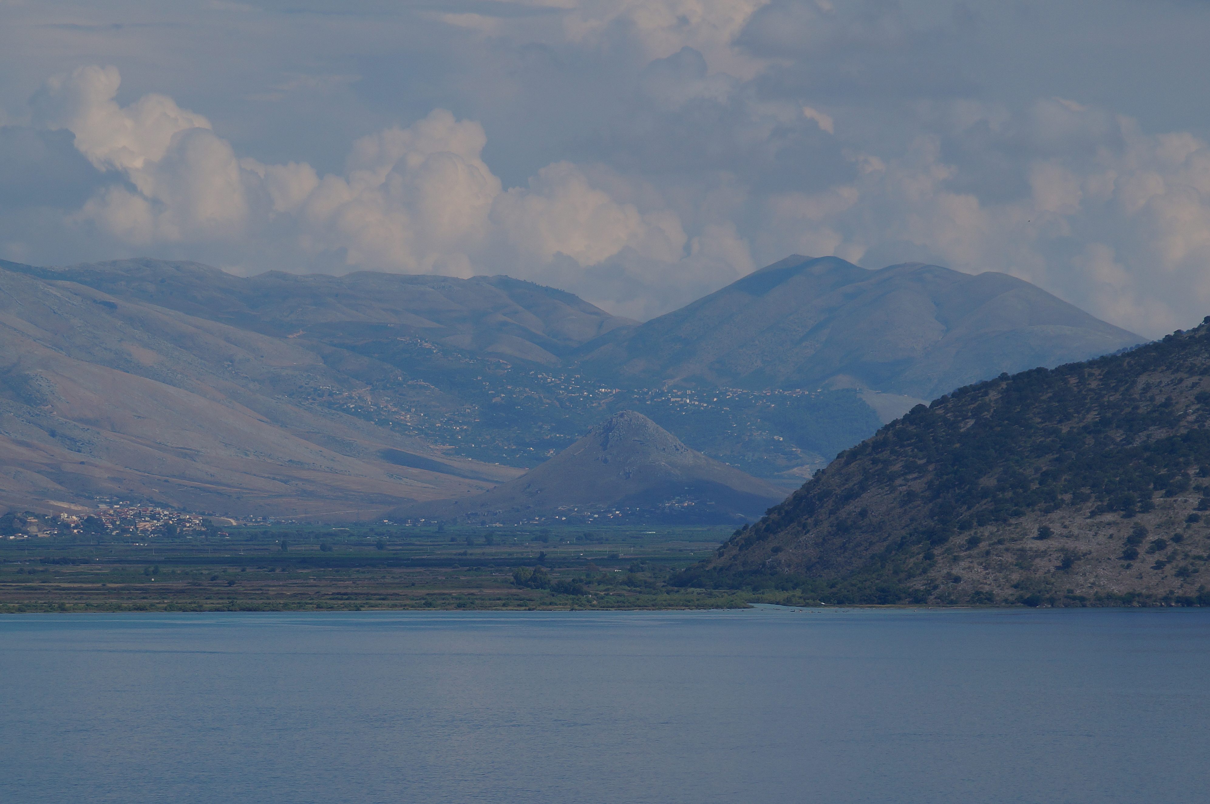 View from Corfu Island to Albania accross the Straits of Corfu. In the far distance, the town of Konispol – in front of it the Vrina plain with the mouth of Pavlla' river and the hill Mali Çuka i Aitoit.